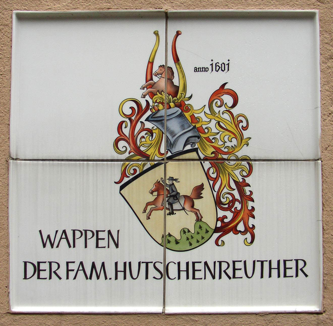 Town history on porcelain in Selb in Bavaria, Germany